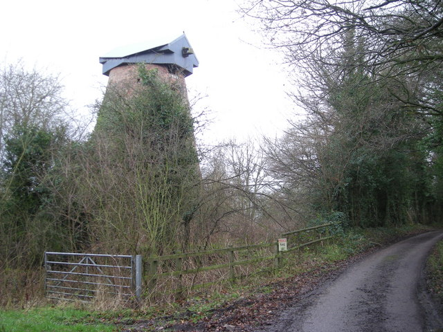 Disused tower mill north of Weston, Shropshire, England. It ground linseed oil for cattle cake and bones for fertiliser.